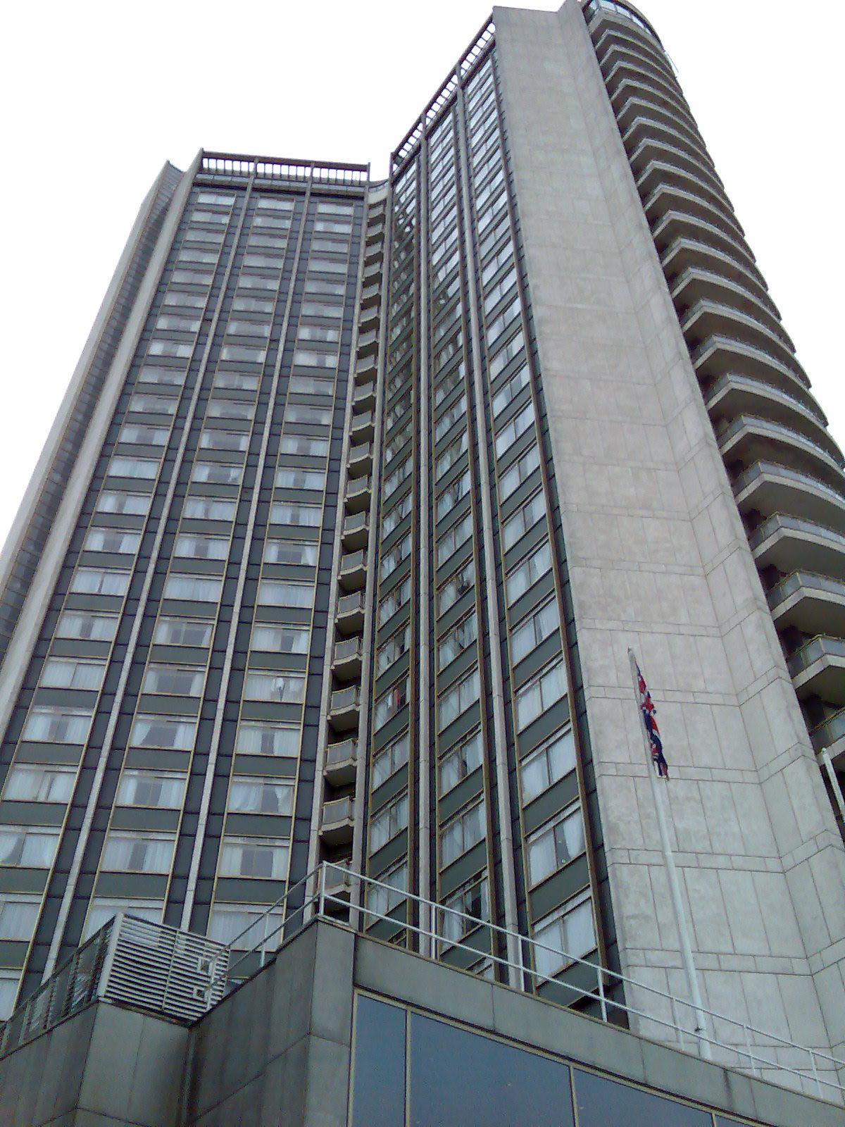 The London Hilton on Park Lane by Hyde Park in London